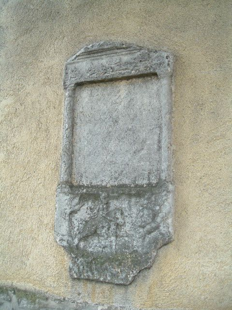 Old Roman tomb-stone in the wall of the Roman Catholic Church in Vassurány, Hungary